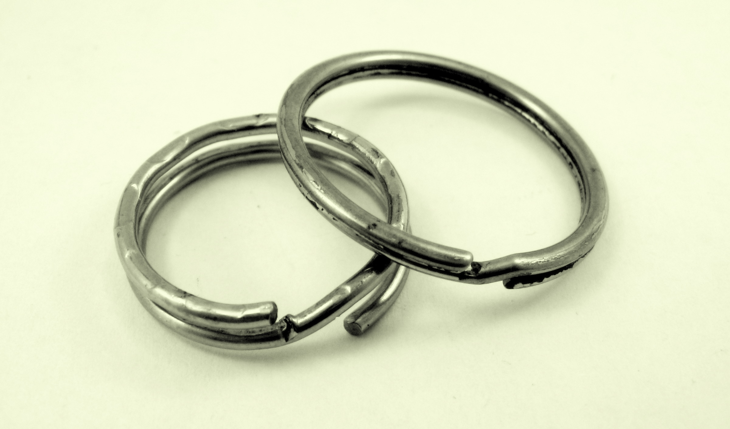 two keyrings